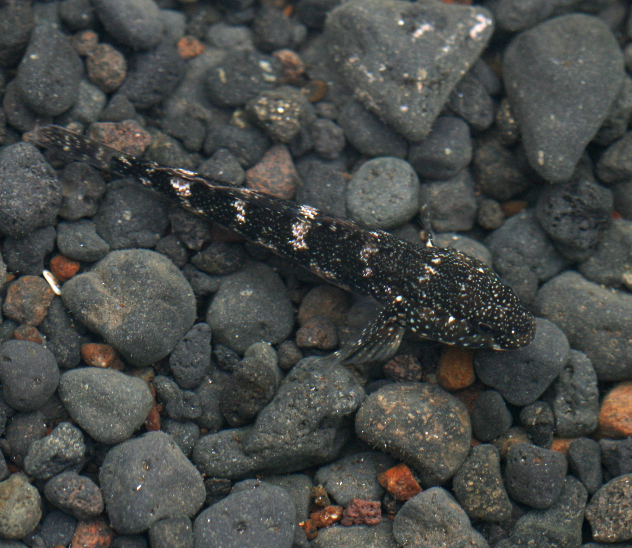 Lanzarote, Spain. Id thanks to Andy Horton & Bernhard Jacobi